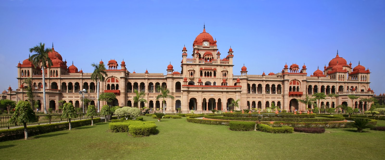 Khalsa College, Amritsar, Punjab, Indiaਪੰਜਾਬੀ: ਖ਼ਾਲਸਾ ਕਾਲਜ, ਅਮ੍ਰਤਸਰ, ਪੰਜਾਬ, ਭਾਰਤپنجابی: خالصہ کالج، امرتسر, پنجاب ، بھارت